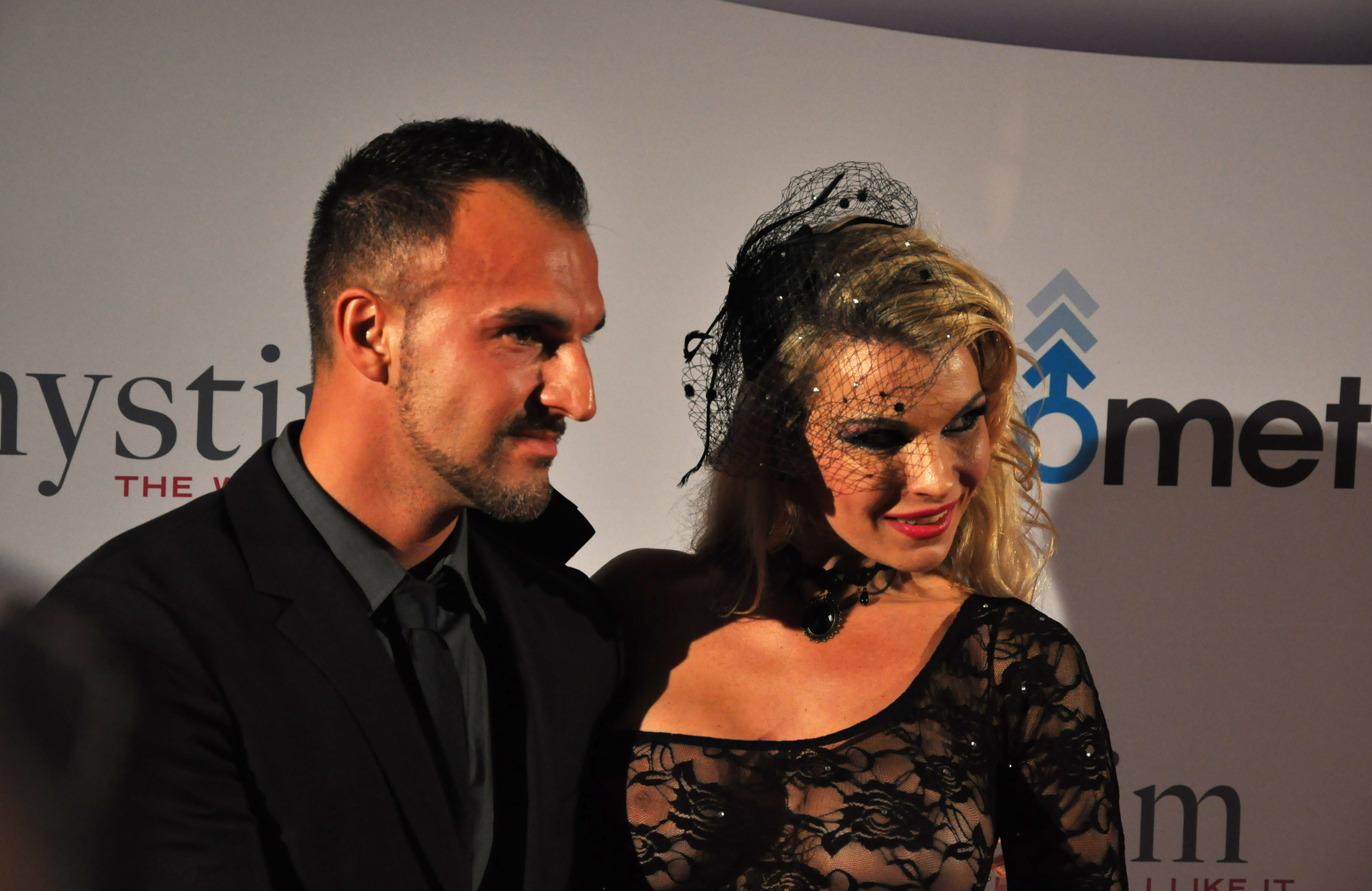 Aische Pervers and Manuel Stallion (Bang Boss) at the ceremony of the Venus Awards 2014, Berlin